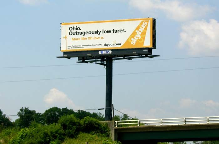 Skybus Airlines billboard along Interstate 75 south of Dalton, Georgia